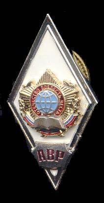 Badge of Russian academy of spying